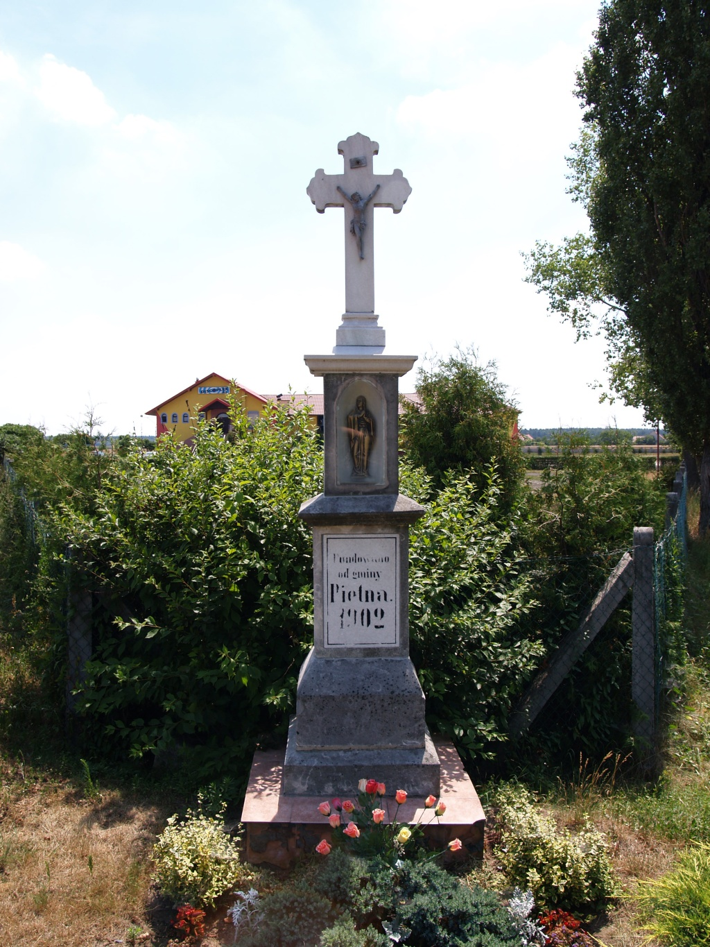 Old cross at the crossroad in front of the entry to the village of Pietna near Krapkowice (German: Krappitz) dated in 1902